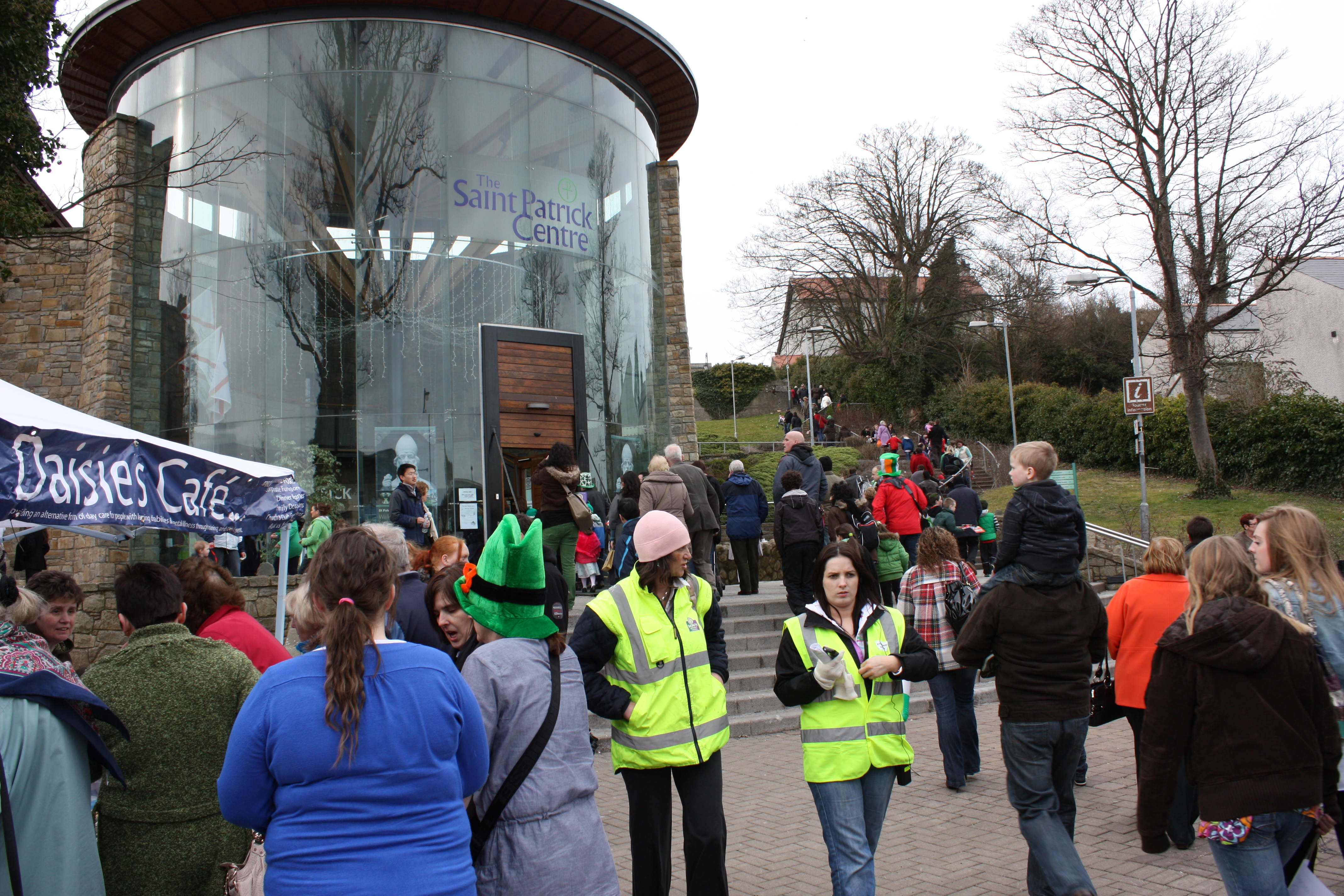 After the St Patrick's Day Parade, St Patrick Square, Downpatrick, County Down, Northern Ireland, March 2010